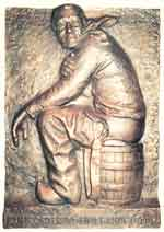 Bronzeabguß des / bronze casting of the Tönnekesdrieter